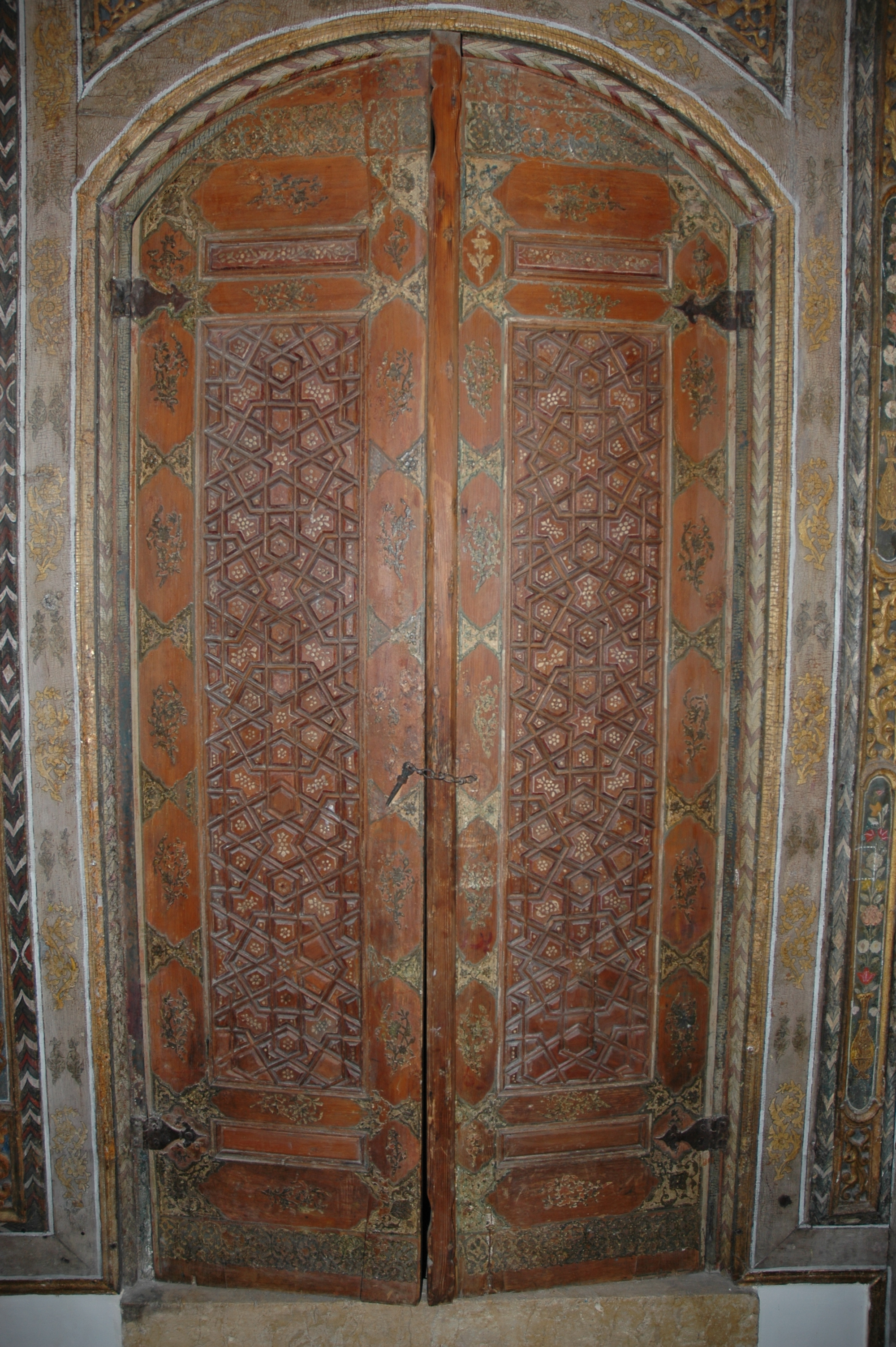 Ancient City of Aleppo (Syrian Arab Republic)